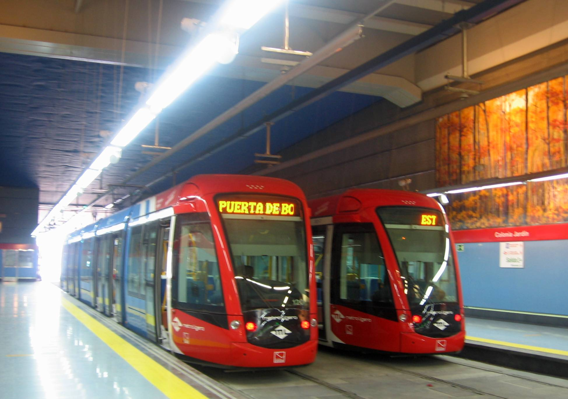 Colonia Jardín station of Madrid Light Rail.